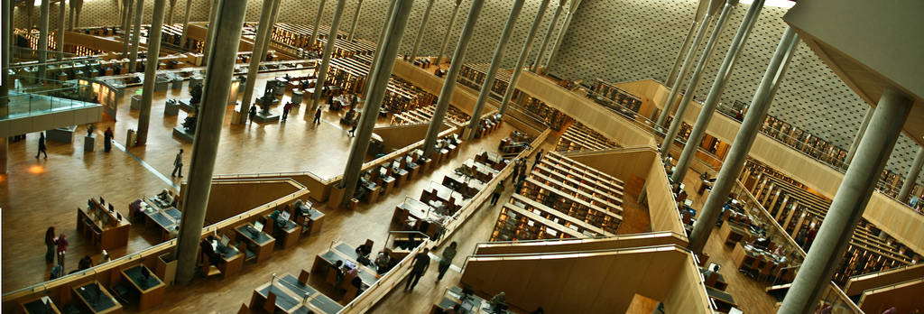 Panoramic View of the Inside of the Library of Alexandria